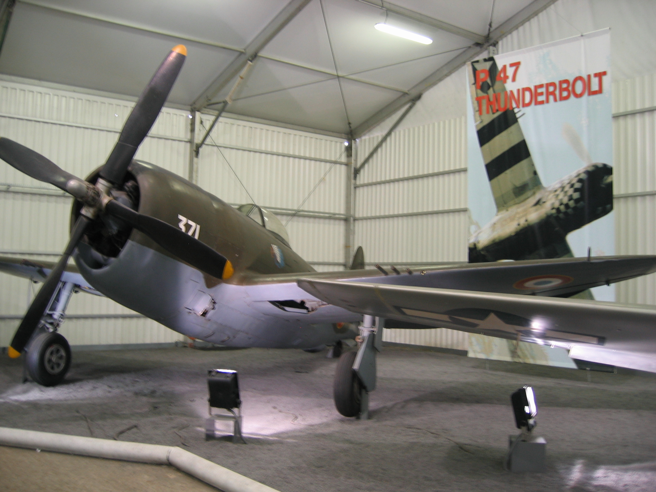 Displays of aircraft and spacecraft at the Musée de l'Air et de l'Espace (Air & Space Museum), Le Bourget, Paris, France, in September 2008.